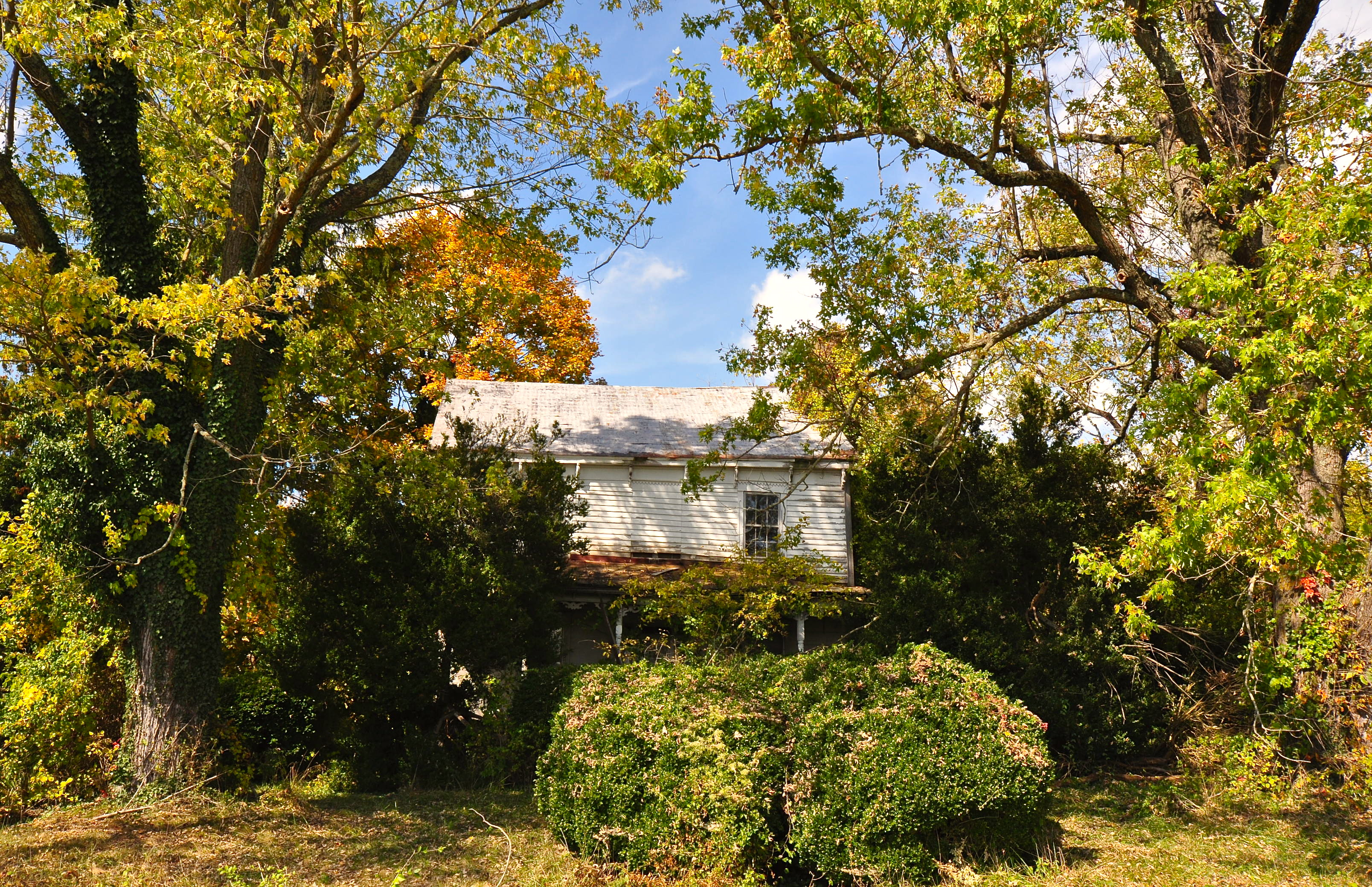 James Charlton Farm, located near Radford, Montgomery County, Virginia . NRHP Reference#: 89001816 House is in bad condition and becoming overgrown